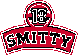 Recreation of the patch worn by the Senators for the 1995-96 season to honor Smith.